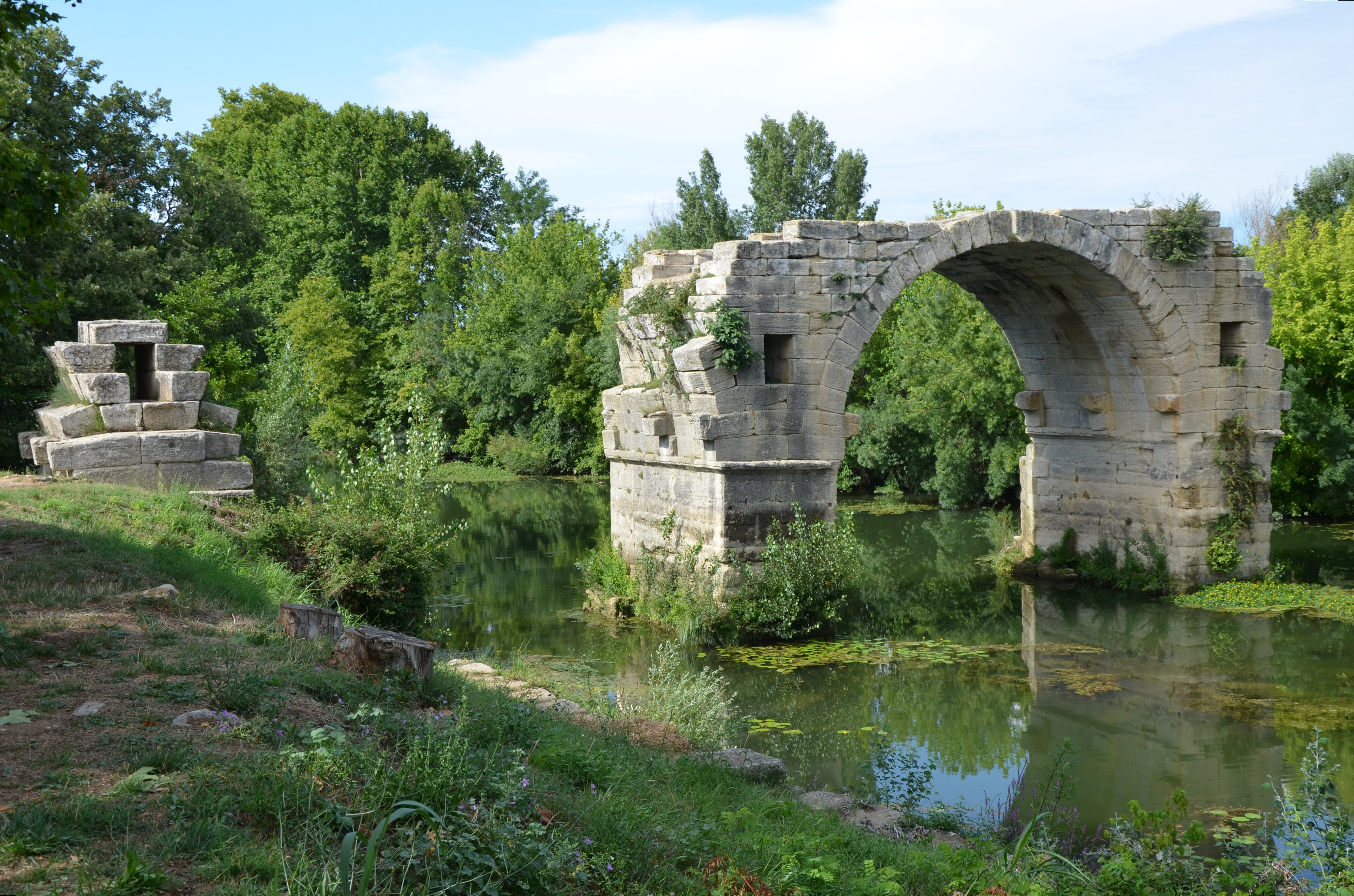 Remaining arch of Pont Ambroix, 1st century BC Roman bridge part of the Via Domitia, Ambrussum, France